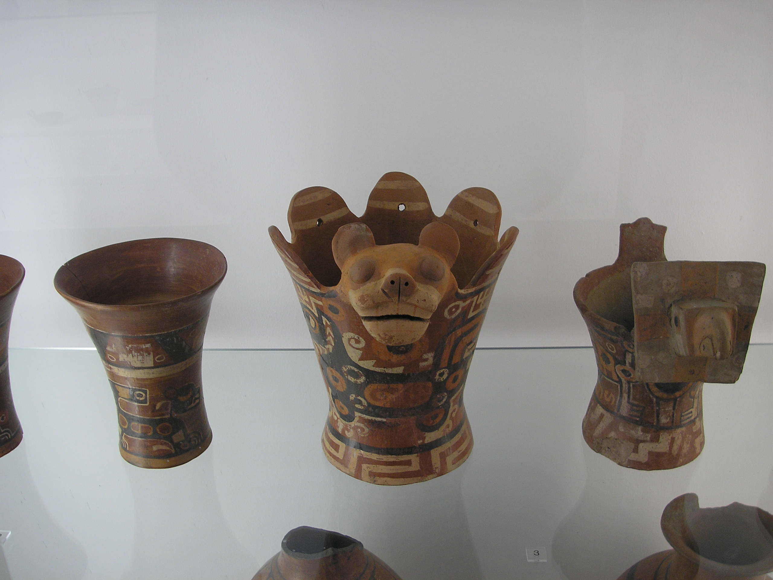 Old pottery from Tiahuanaco, also called Tiwanaku. At the Ethnologisches Museum, Berlin-Dahlem.